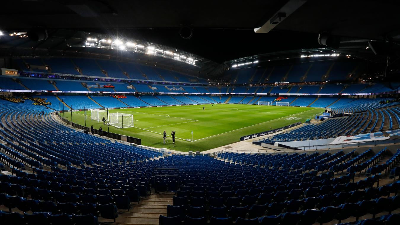 Etihad Stadium in 2016